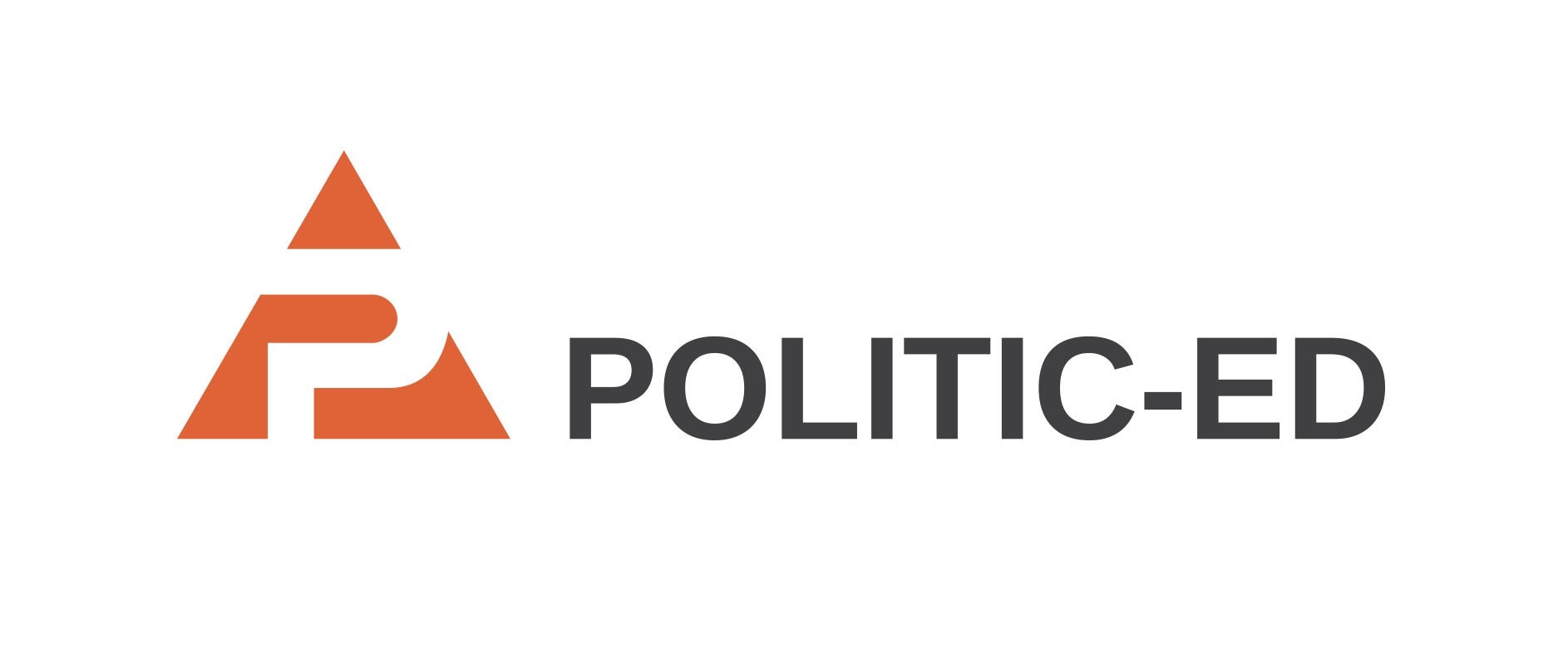 Politic-Ed logo, displaying "Politic-Ed" text and orange triangle with a 'P' in it.